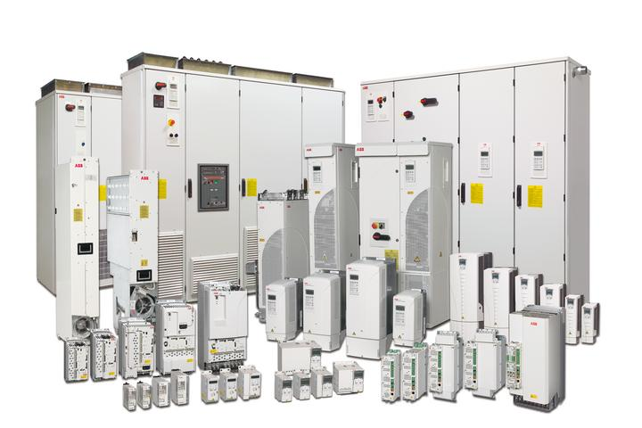 Variable frequency drives (VFD) by ABB